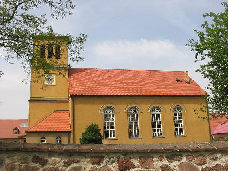 Round arch church in Lütte, a village (part) of the town Belzig in Brandenburg, Germany. Built in 1840 according to general plans by Karl Friedrich Schinkel for churchbuildings in the rural areas from Prussia.